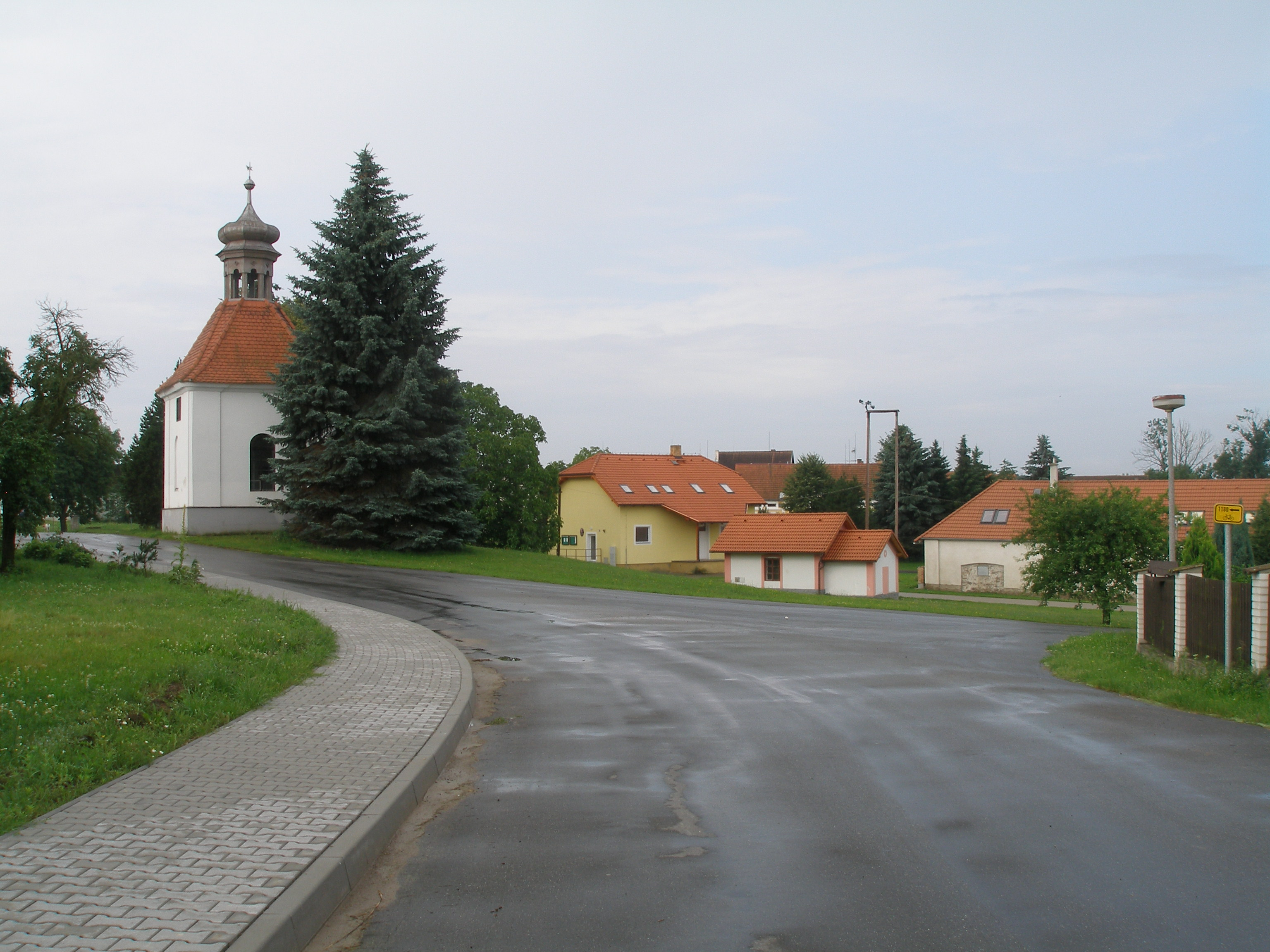 Zvěrotice - the square